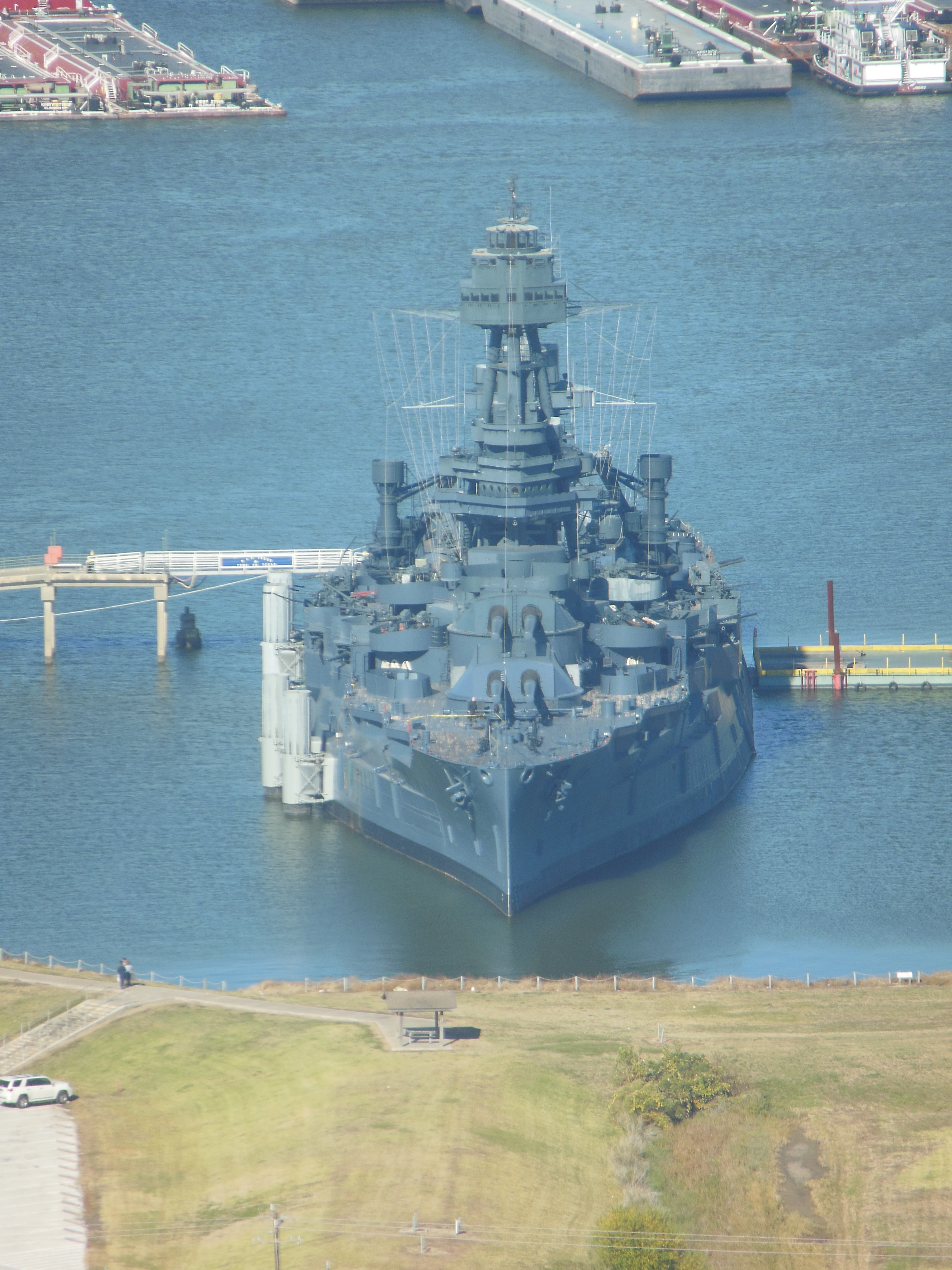 Battleship Texas, in San Jacinto State Park, from the top of the San Jacinto Memorial